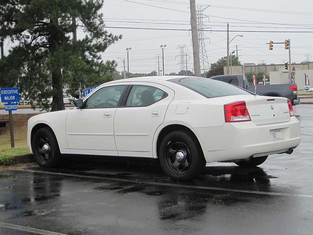 Memphis Police Department (MPD) vehicle. Unmarked Dodge Charger.